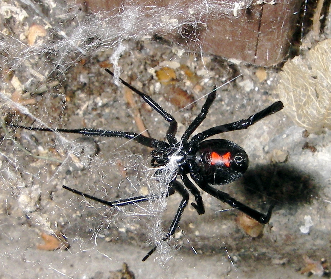 Found her in the garage. These cannibalistic spiders use a powerful neurotoxin that causes constant painful muscle spasms (from acetycholine release). While their numbers are still small relative to other urban threats, these spiders kill more people worldwide than any other. Unfortunately, the anti-venom is more lethal than the neurotoxin itself.